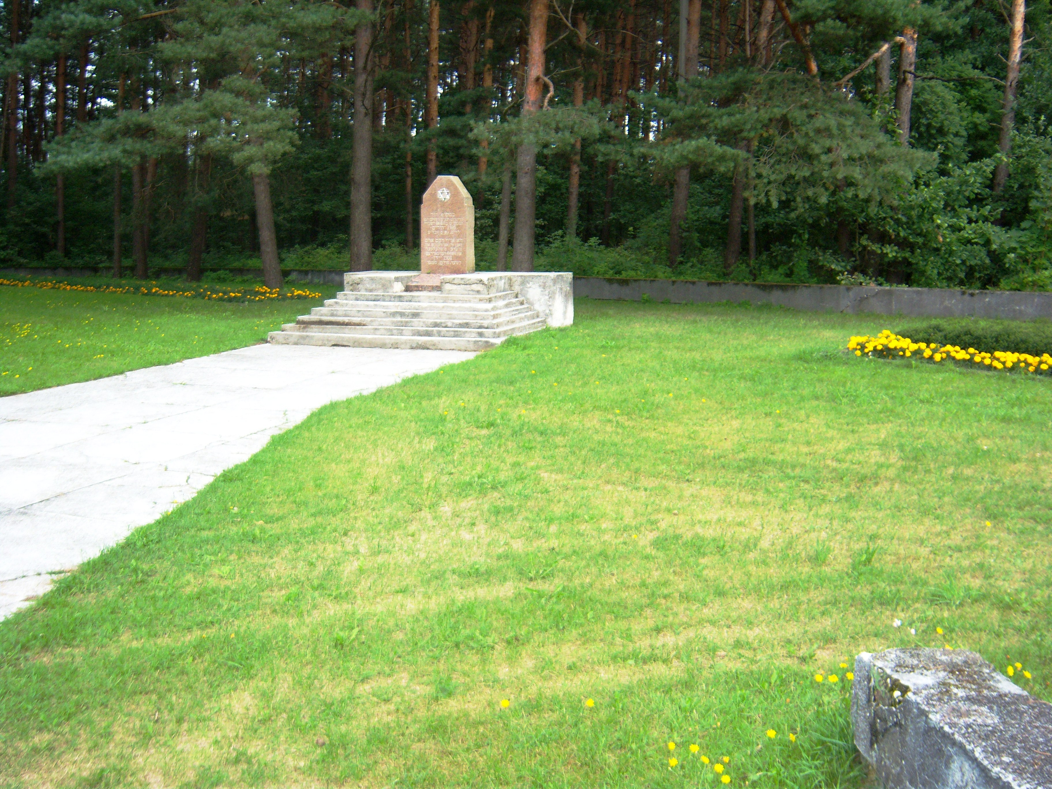 Holocaust memorial in Jonava, Lithuania